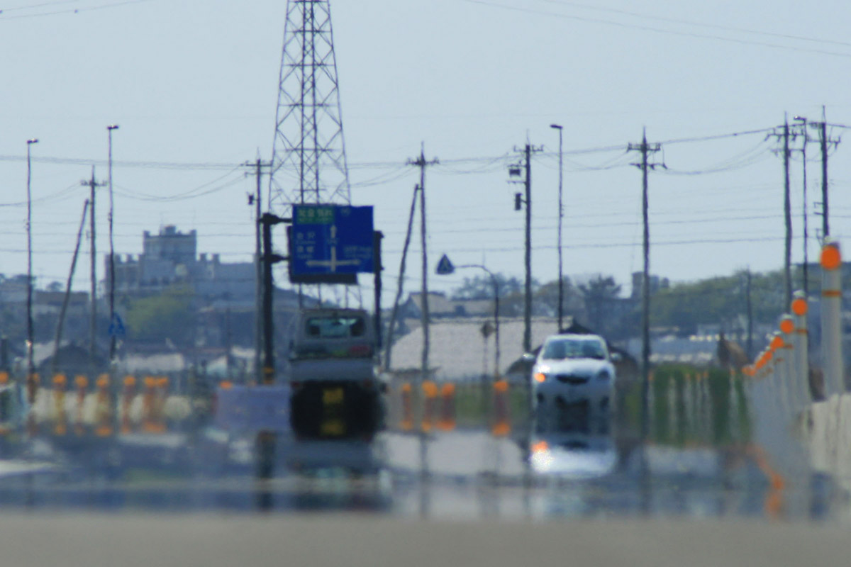 Hot road mirage "fake water"